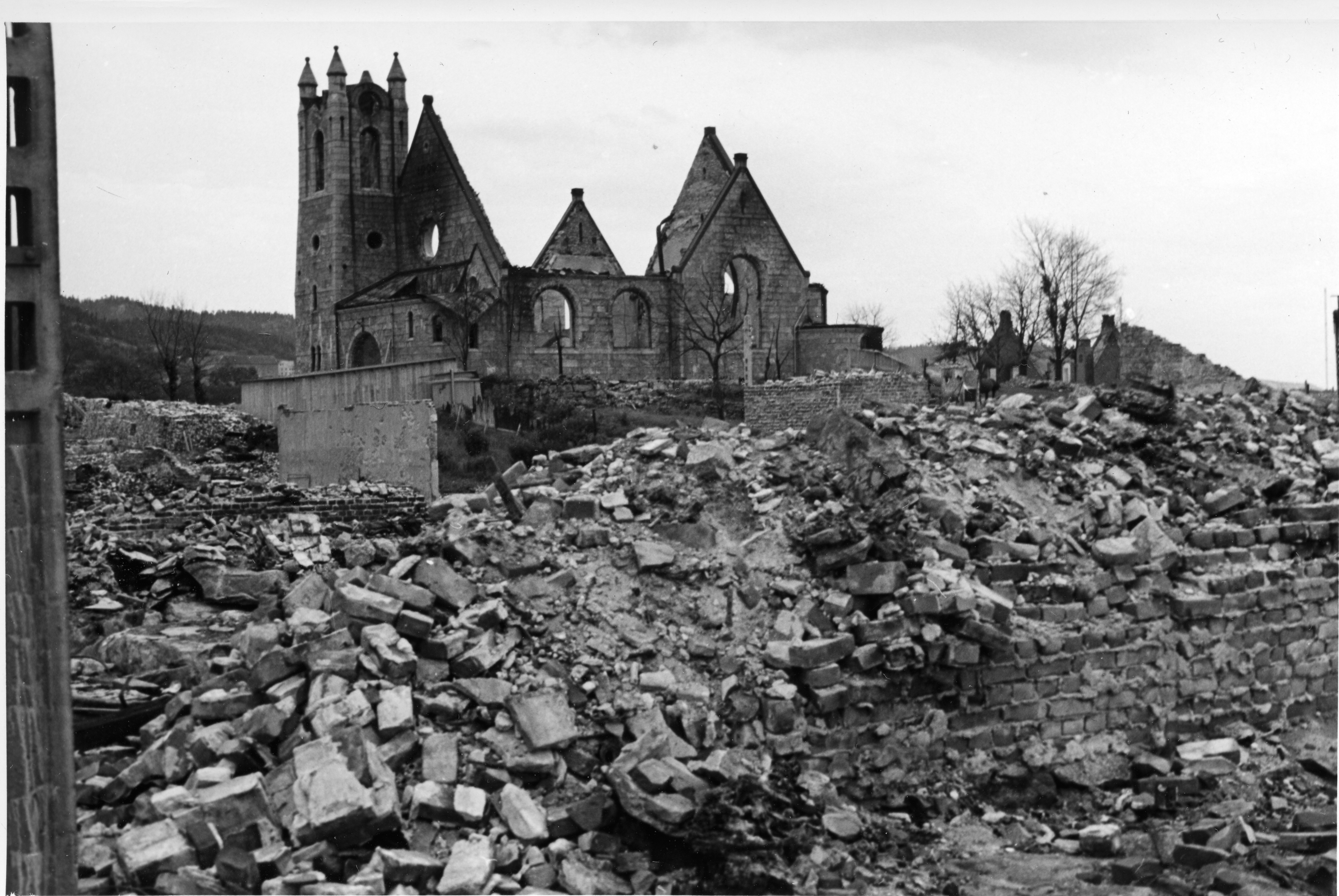 Identified as Namsos after Namsos campaign and bombing. Ruins of Namsos church.